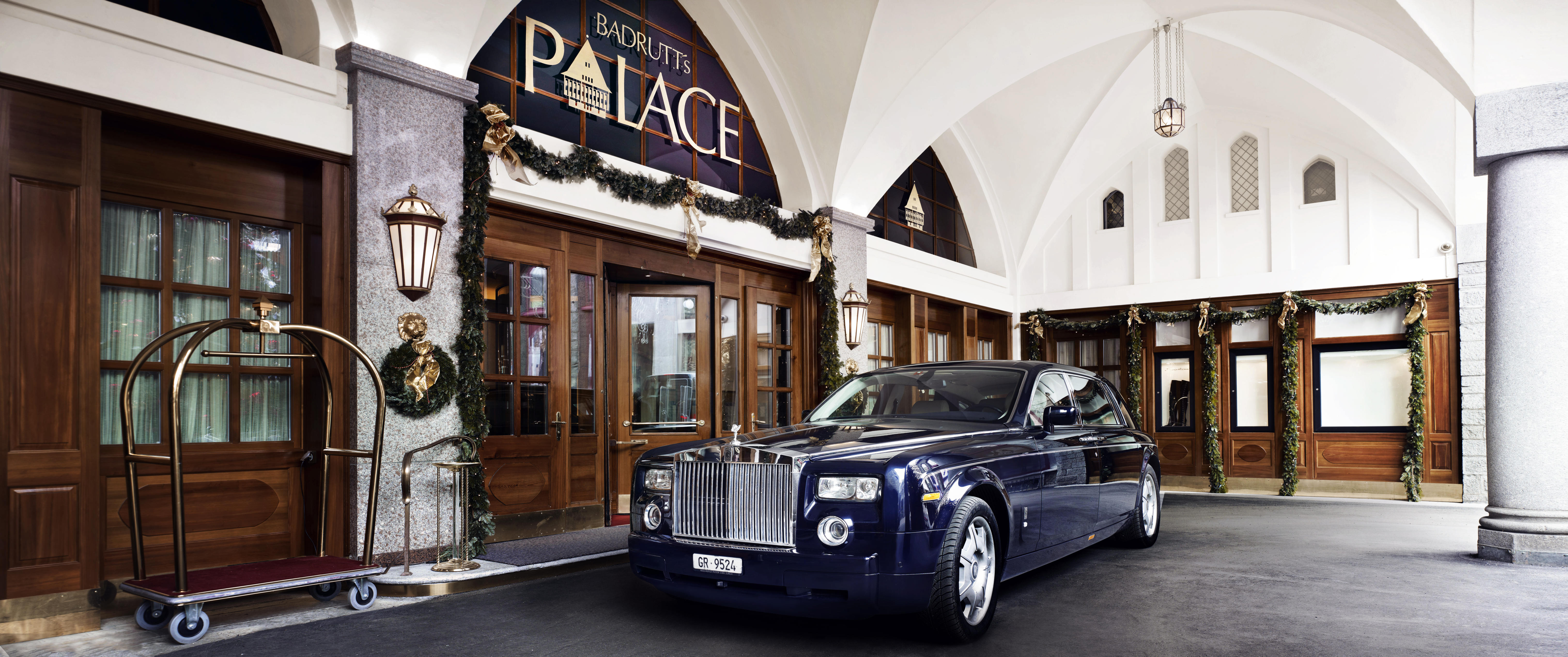 The entrance of the Badrutt's Palace Hotel.